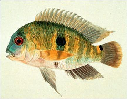 Aequidens viridis, Aquarell by Johann Natterer from 1829